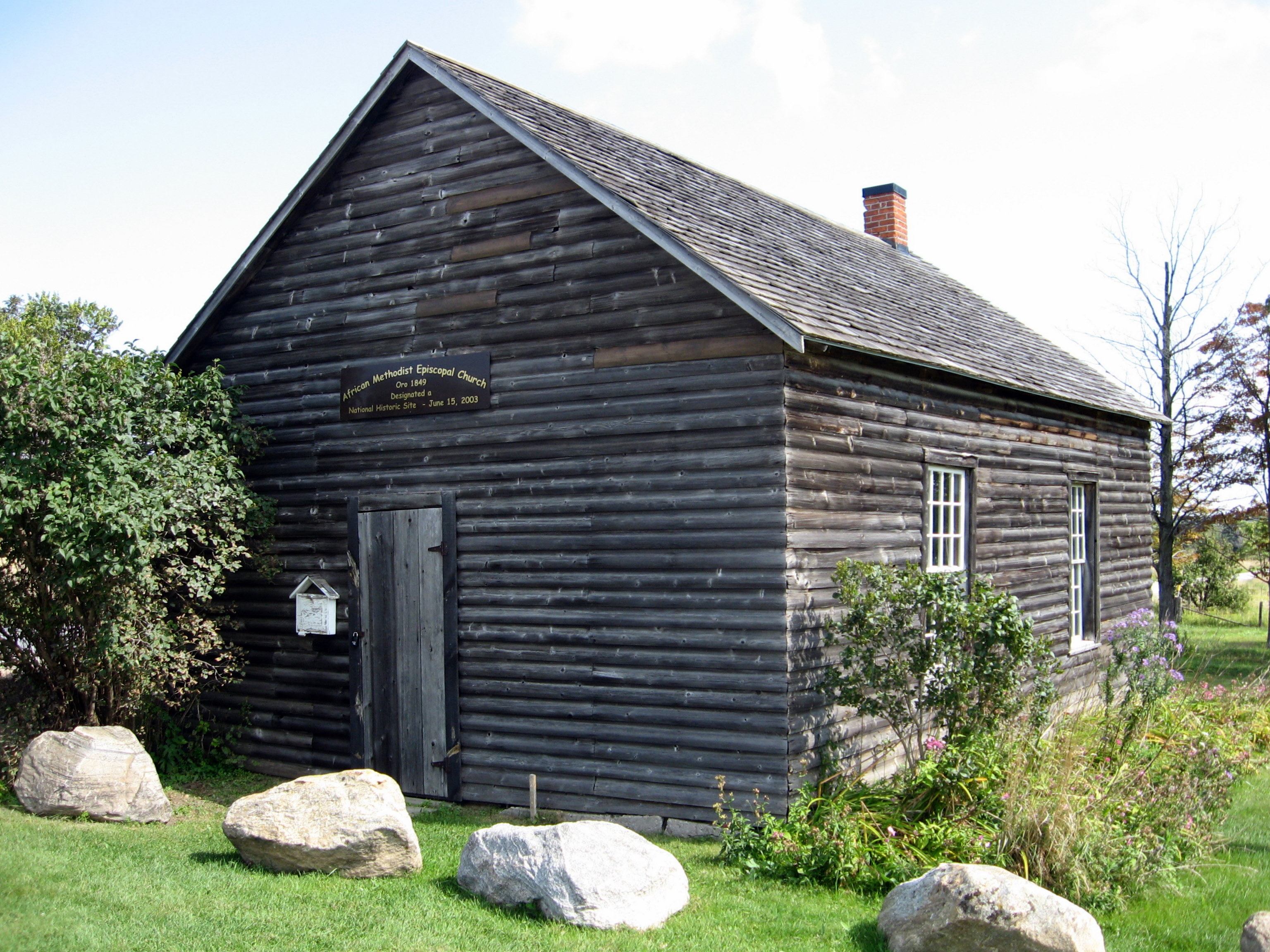 Oro African Methodist Episcopal Church, a National Historic Site in Oro-Medonte, Ontario, Canada.